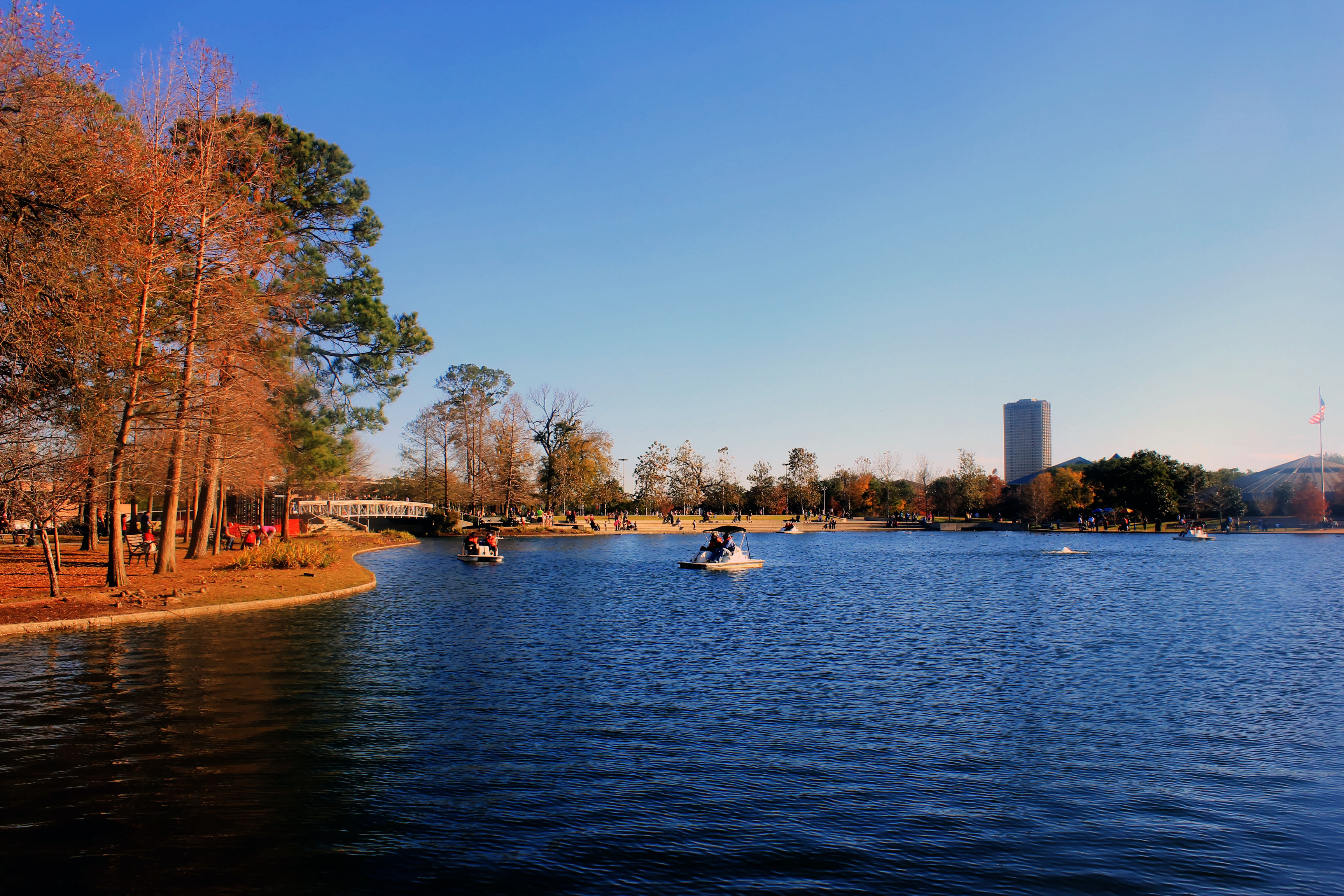 Houston is the largest city in Texas with the six million people in its metro area. Its wide array of parks and attractions make it an attractive city for touri View of the lake at Hermann Park